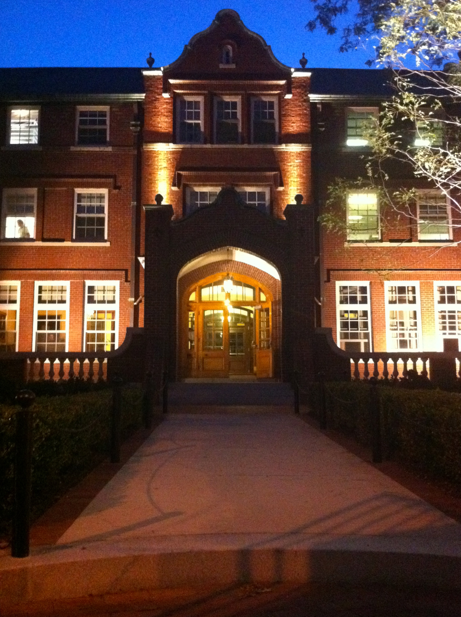 The Wheeler School in Providence, RI in 2011